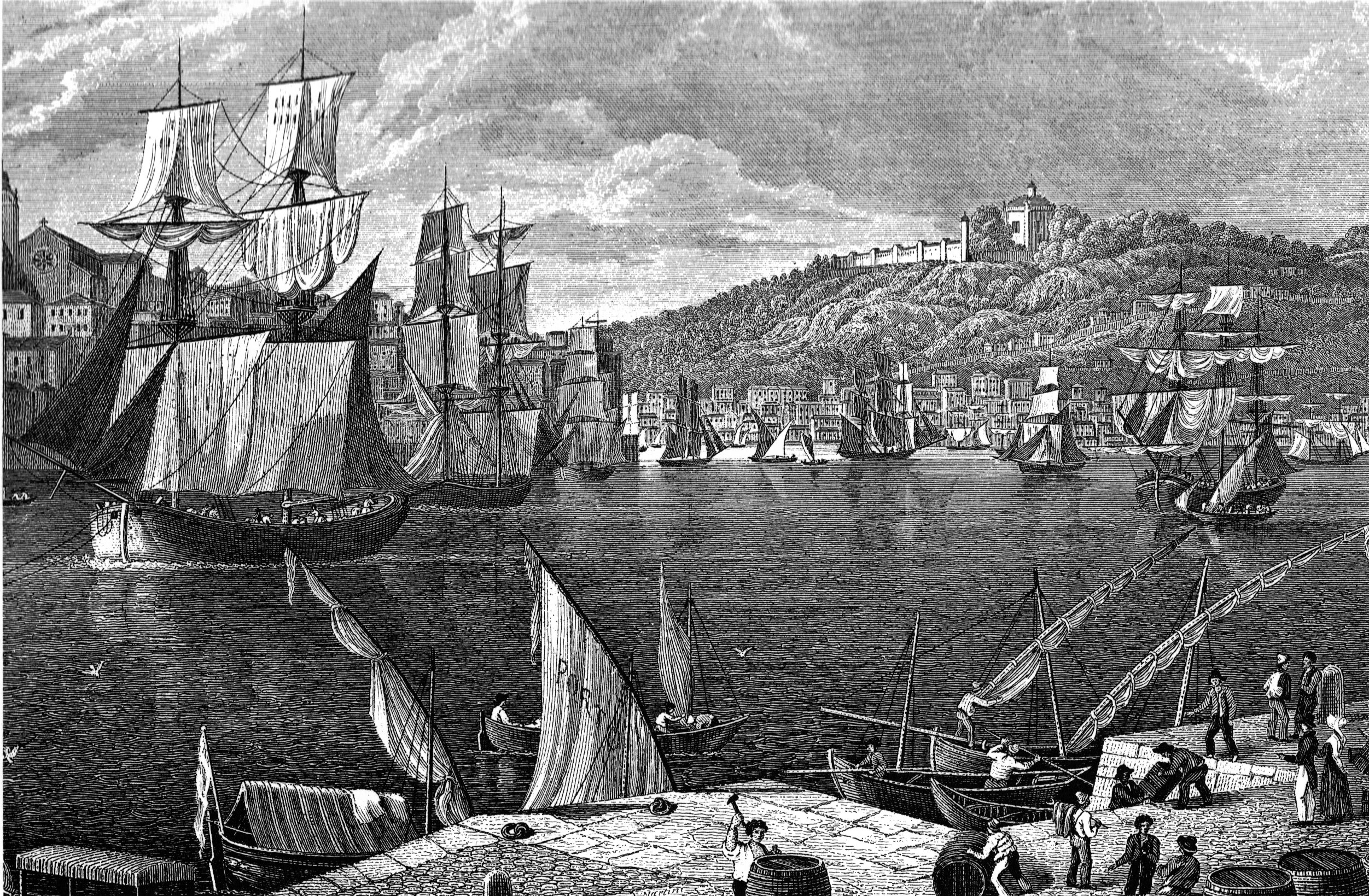 Ships at Porto harbor, around 1835. Engraving by J.G. Martini.